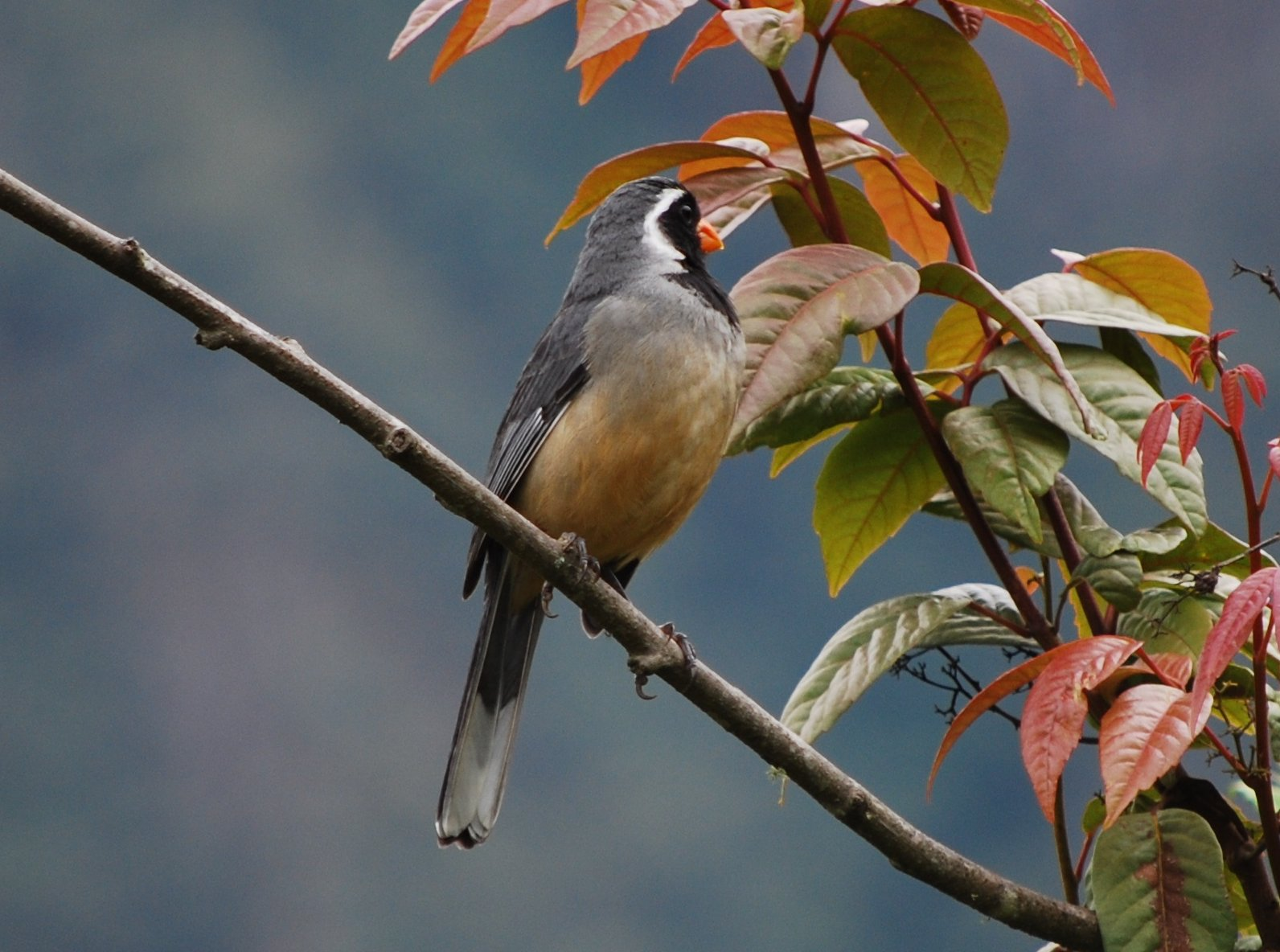 A Golden-billed Saltator at Machu Picchu, Peru.